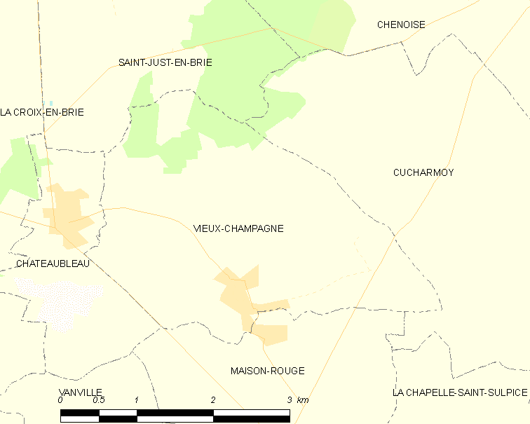 Map of French municipality Vieux-Champagne